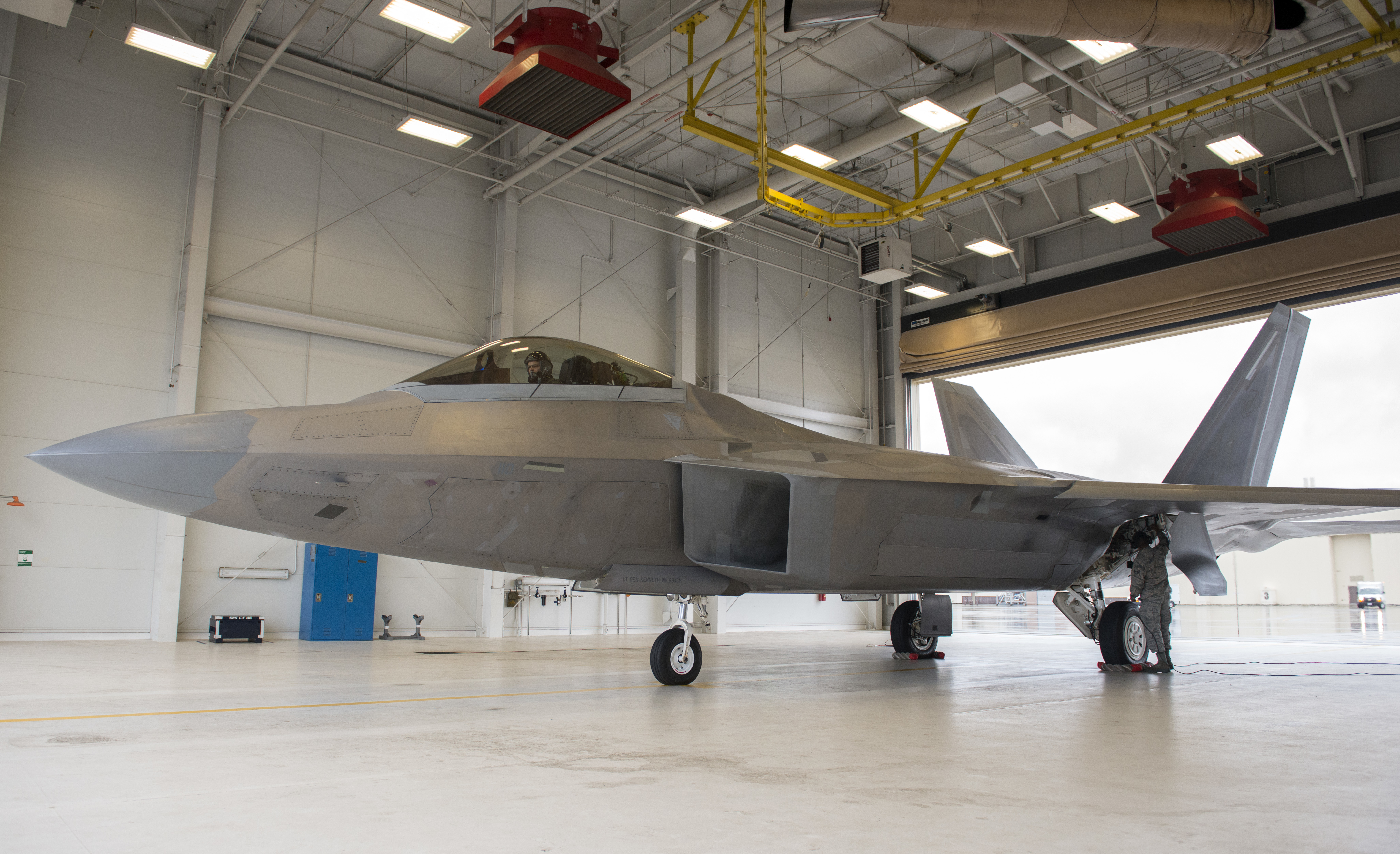 Lieutenant General Kenneth S. Wilsbach Flying F-22 Raptor from Joint Base Elmendorf-Richardson, Alaska.